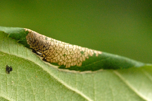 Callisto denticulella from Commanster, Belgian High Ardennes .